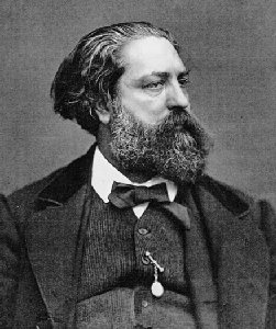 Portrait of Gustave Aimard